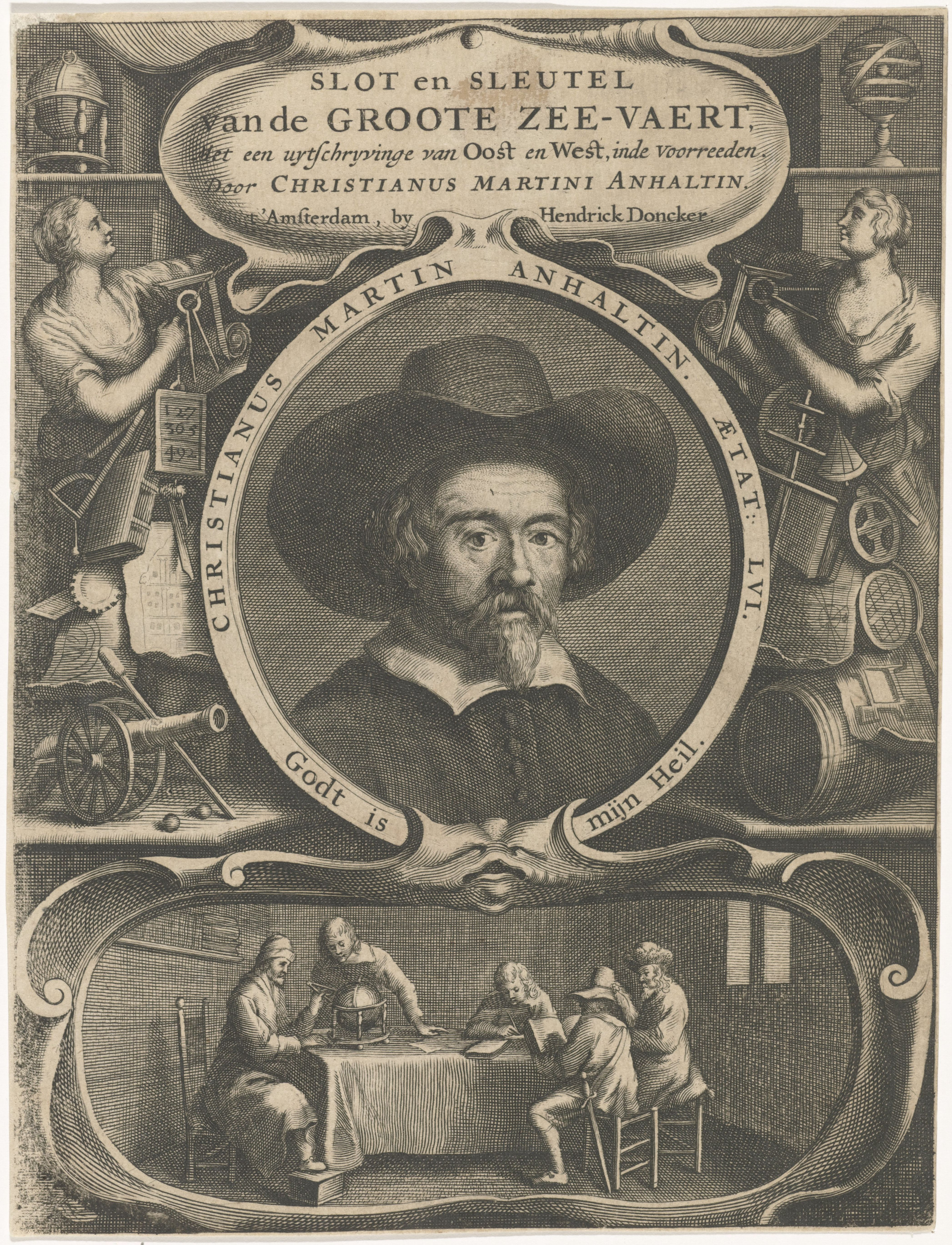 Portrait of Christian Martin Anhaltin. Title page of C.M. Anhaltin, Slot en sleutel van de groote zee-vaert met een uytschrijvinge van Oost en West, inde voorreeden. Amsterdam: H. Doncker/Herman Aeltsz., 1659. Rijksmuseum Amsterdam RP-P-OB-60.199. Engraving h 222 mm × b 169 mm. Depiction of Petrus Plancius with students at the bottom?